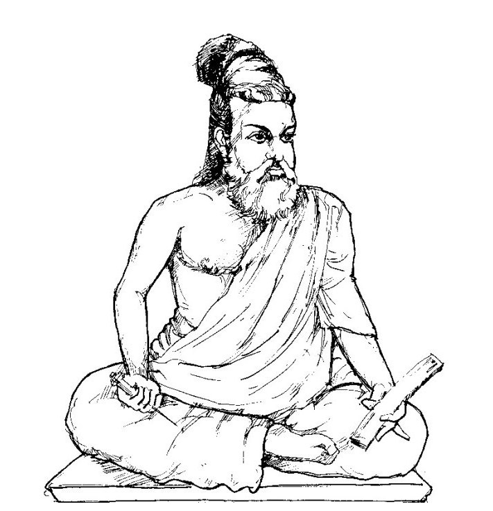 Thiruvalluvar